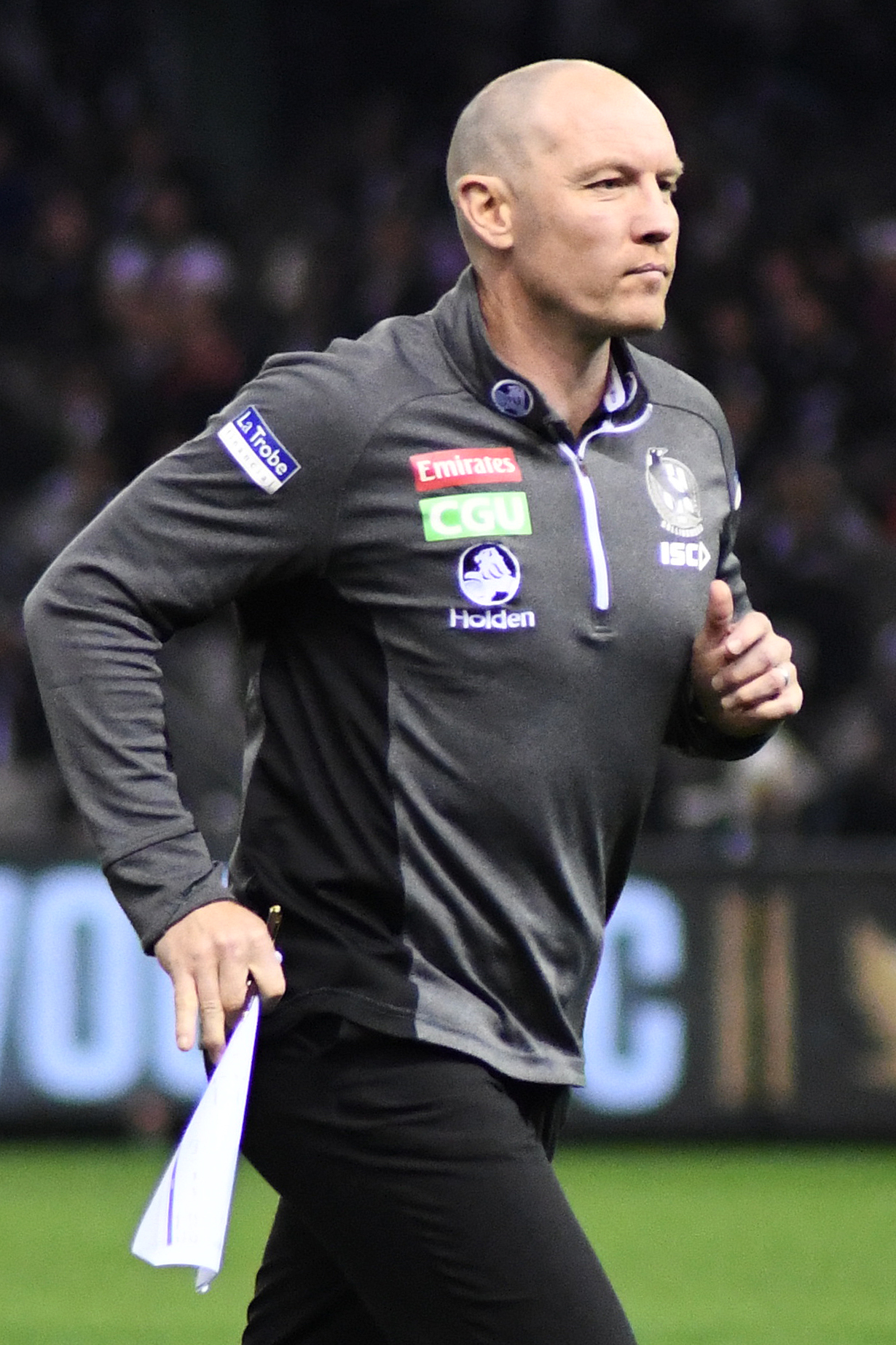 Brenton Sanderson of Collingwood during the 2018 AFL round 21 match between Collingwood and Brisbane at Etihad Stadium on Saturday, 11 August 2018 in Melbourne, Victoria.